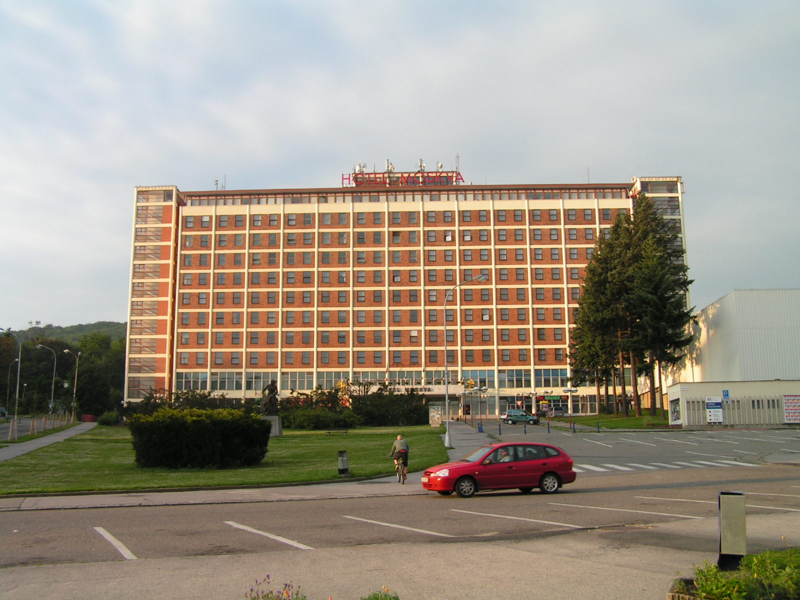 Zlín, hotel Moskva.